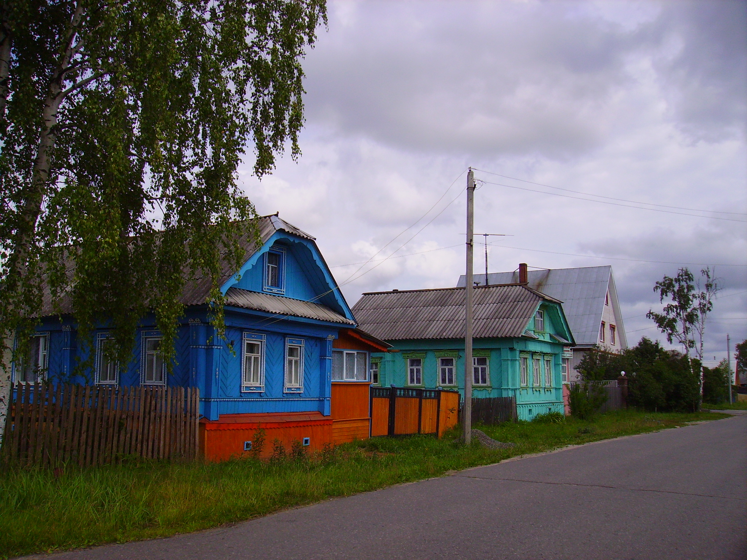 Uren. Ulitsa Truda (Labour street)